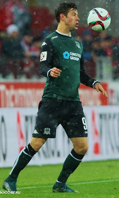 Fyodor Smolov